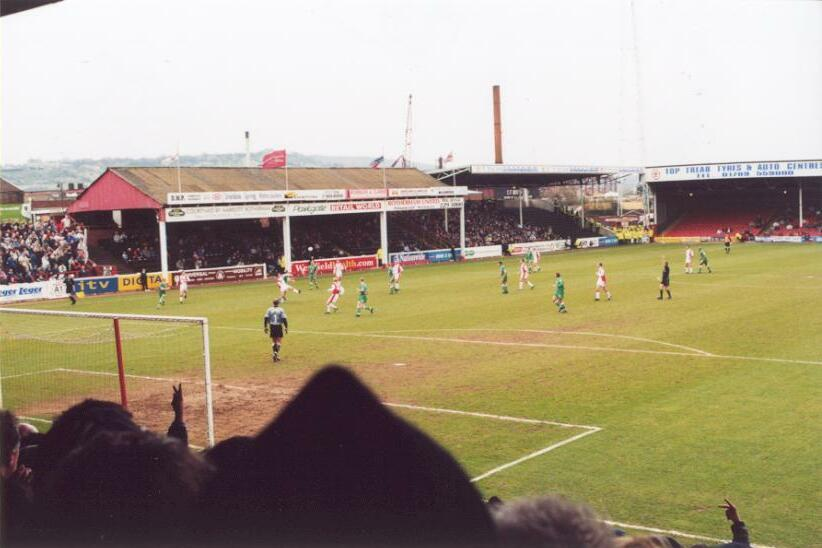 Millmoor in Rotherham in the Easter 2002. Rotherham plays against Millwall.